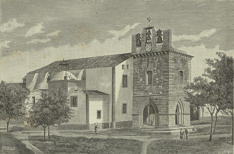 Building of the Cathedral of Faro, in Algarve, Portugal. This image was originally published in the Occidente magazine No. 360, of the 21st December 1888, and scanned by the Hemeroteca Municipal de Lisboa.